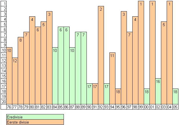 Dutch league positions of Den Bosch, last 30 seasons